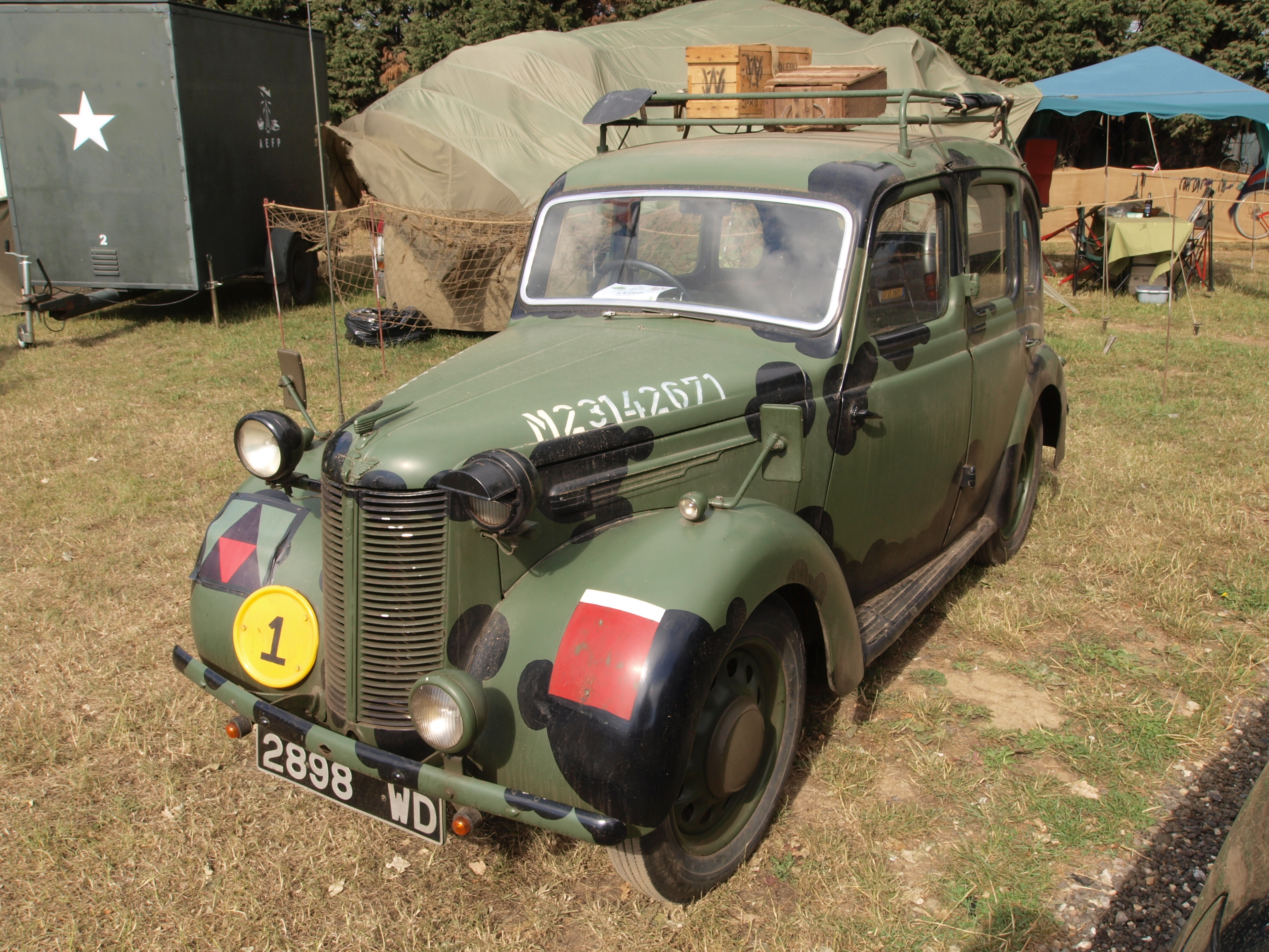 Austin 8 Staff Car, hood number M23142671, licence registration '2898 WD'